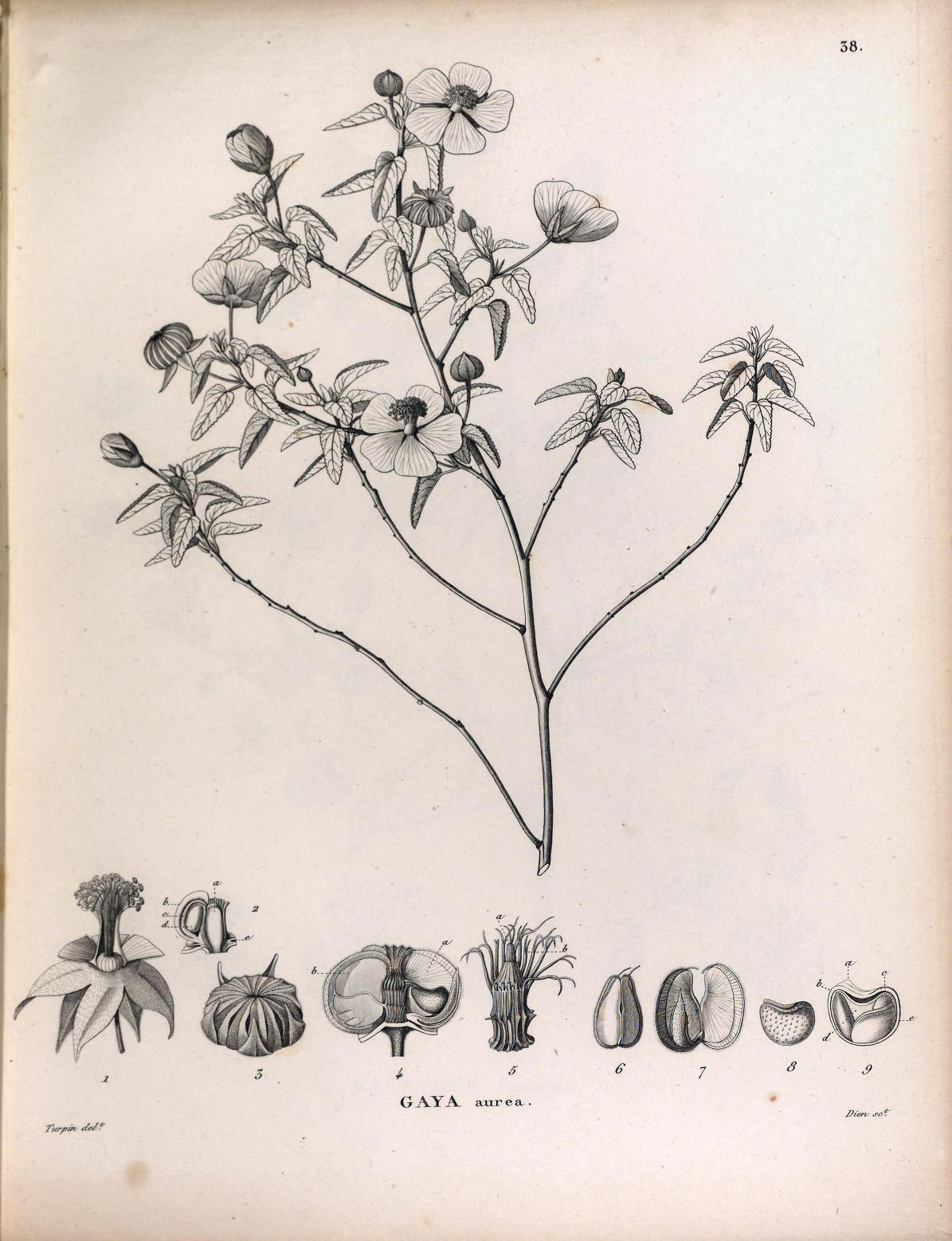 Illustration of Gaya aurea by F. Turpin